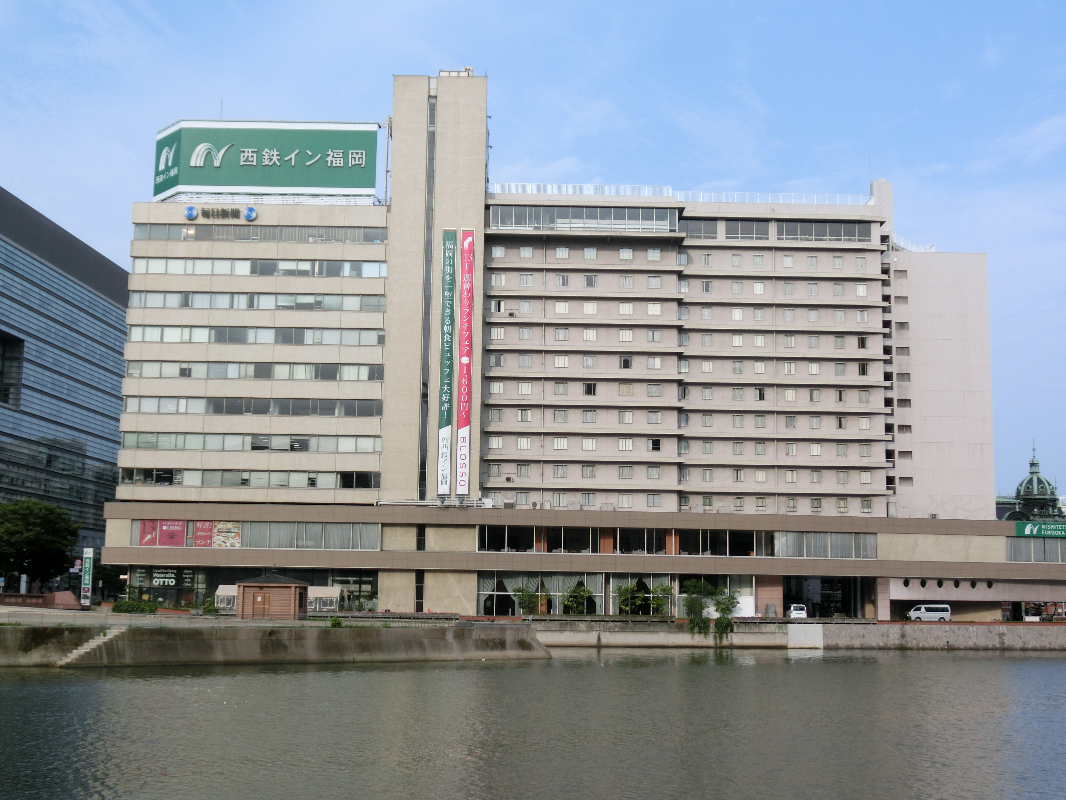 Nishitetsu Inn Fukuoka